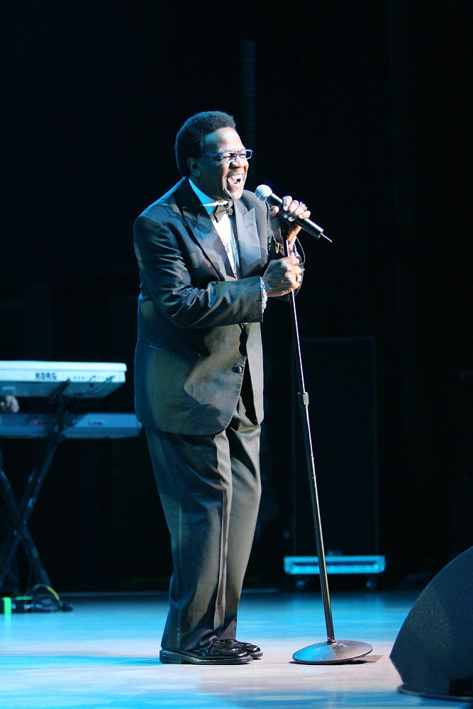 Dwight McCann, Attribution: Dwight McCann / Chumash Casino Resort /